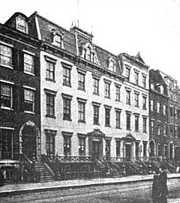 Arlington Hall (19-23 St. Marks Place, now in the East Village neighborhood of Manhattan, New York City), a community hall and ballroom for the German immigrant community of Little Germany in the Lower East Side, c.1892. The buildings were originally built as townhouses for the wealthy in 1831, but were sold to be the clubhouse of a German music club in 1870. In 1887-88, they were combined into Arlington Hall. {